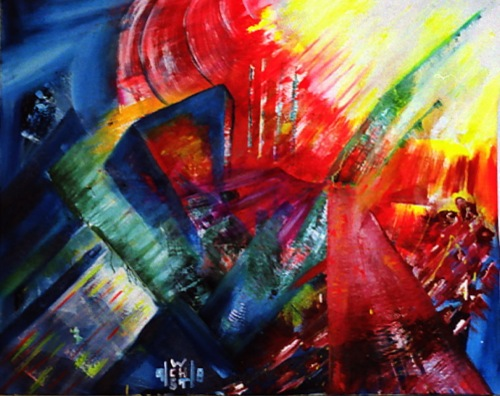 Abstract painting by Christian W. Staudinger, artist in Berlin